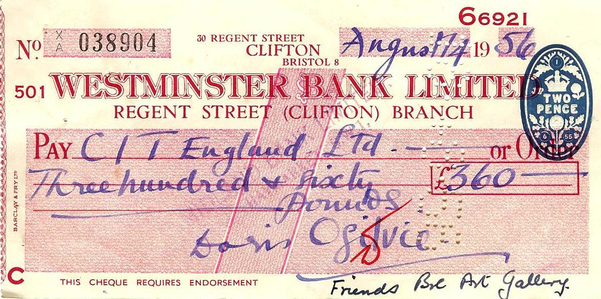 Scan by contributor of cheque of contributor's deceased mother. (talk) 13:36, 7 February 2010 (UTC)